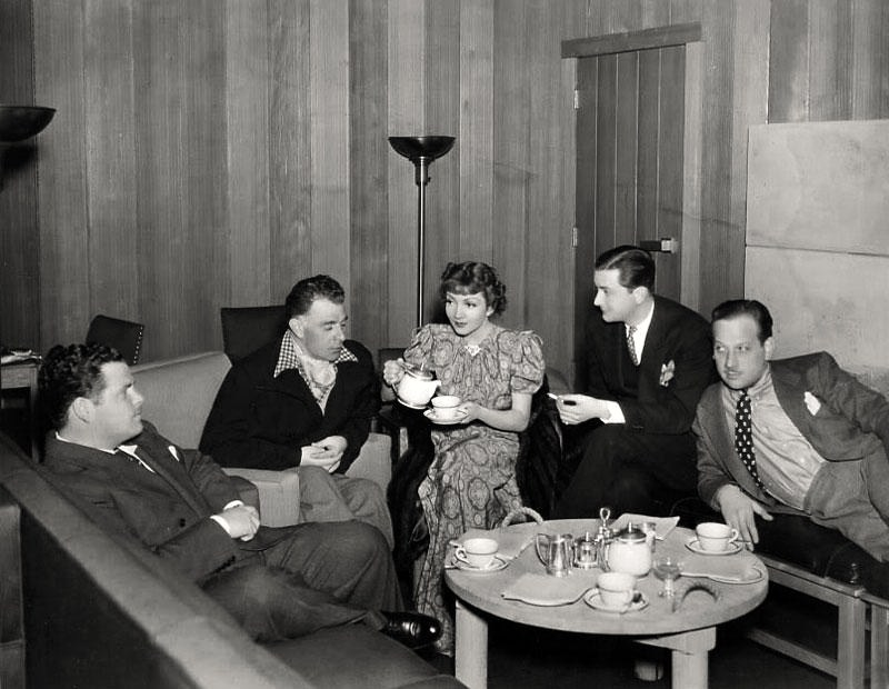 Left to right: Claude Binyon (screenwriter), Wesley Ruggles (director), Claudette Colbert, Robert Young, and Melvyn Douglas, on the set of I Met Him in Paris (1937) - publicity still.